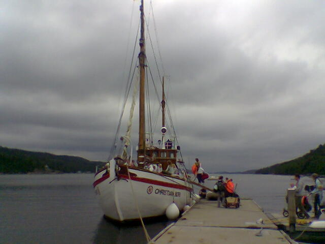 Norwegian rescueboat RS 45 Christian Børs II